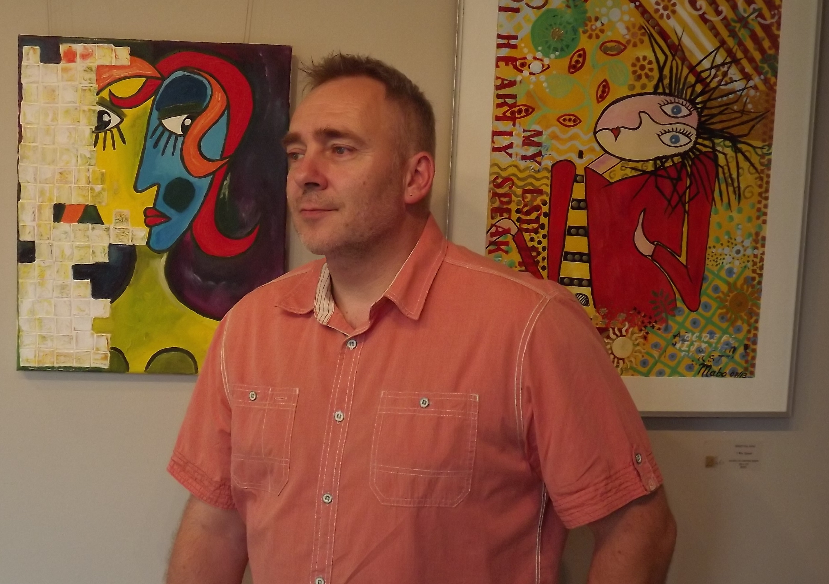 Matthias Bork (MABO the artist) at one of his exhibitions in 2014